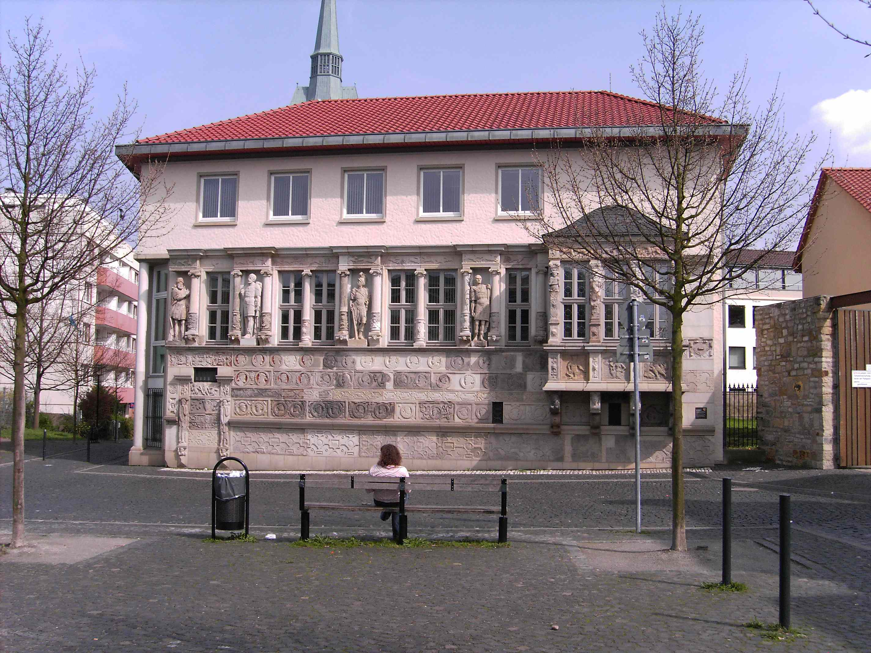 Hildesheim, Kaiserhaus (Emperors house), Renaissance facade, built 1587/88 by Lawyer Caspar Borcholt, destroyed 22.03.1945, salvaged from the rubble and restored 1997